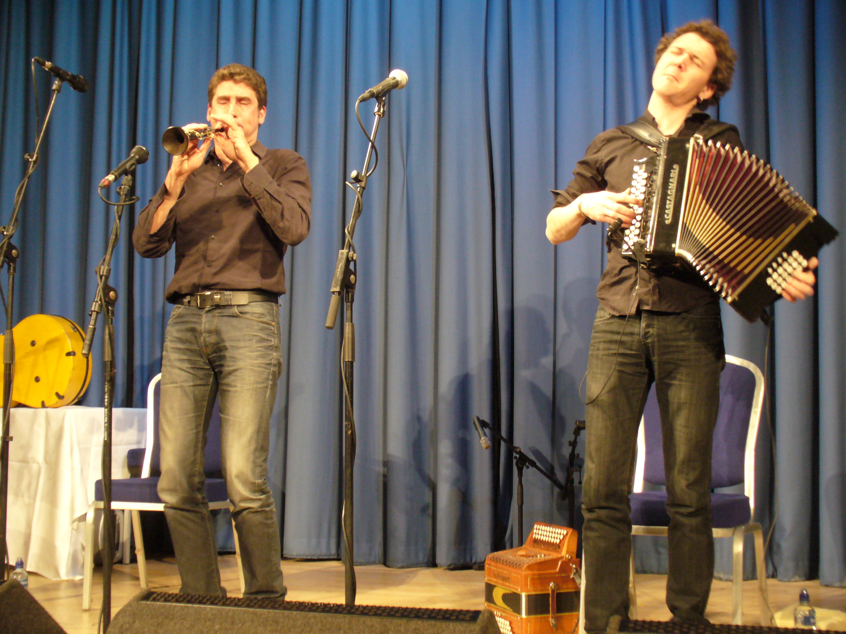 The amazing Erwan Hamon and Yannick Martin.